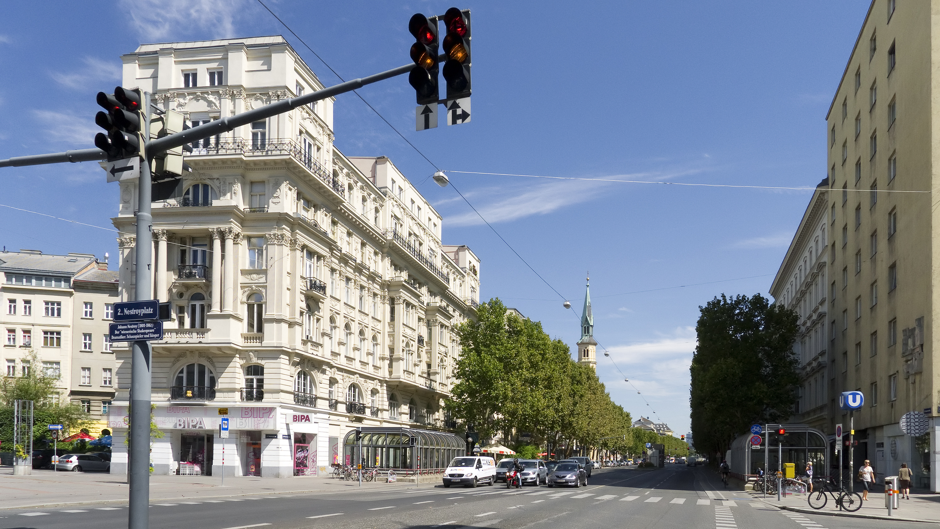 Praterstraße at Nestroyplatz, Vienna